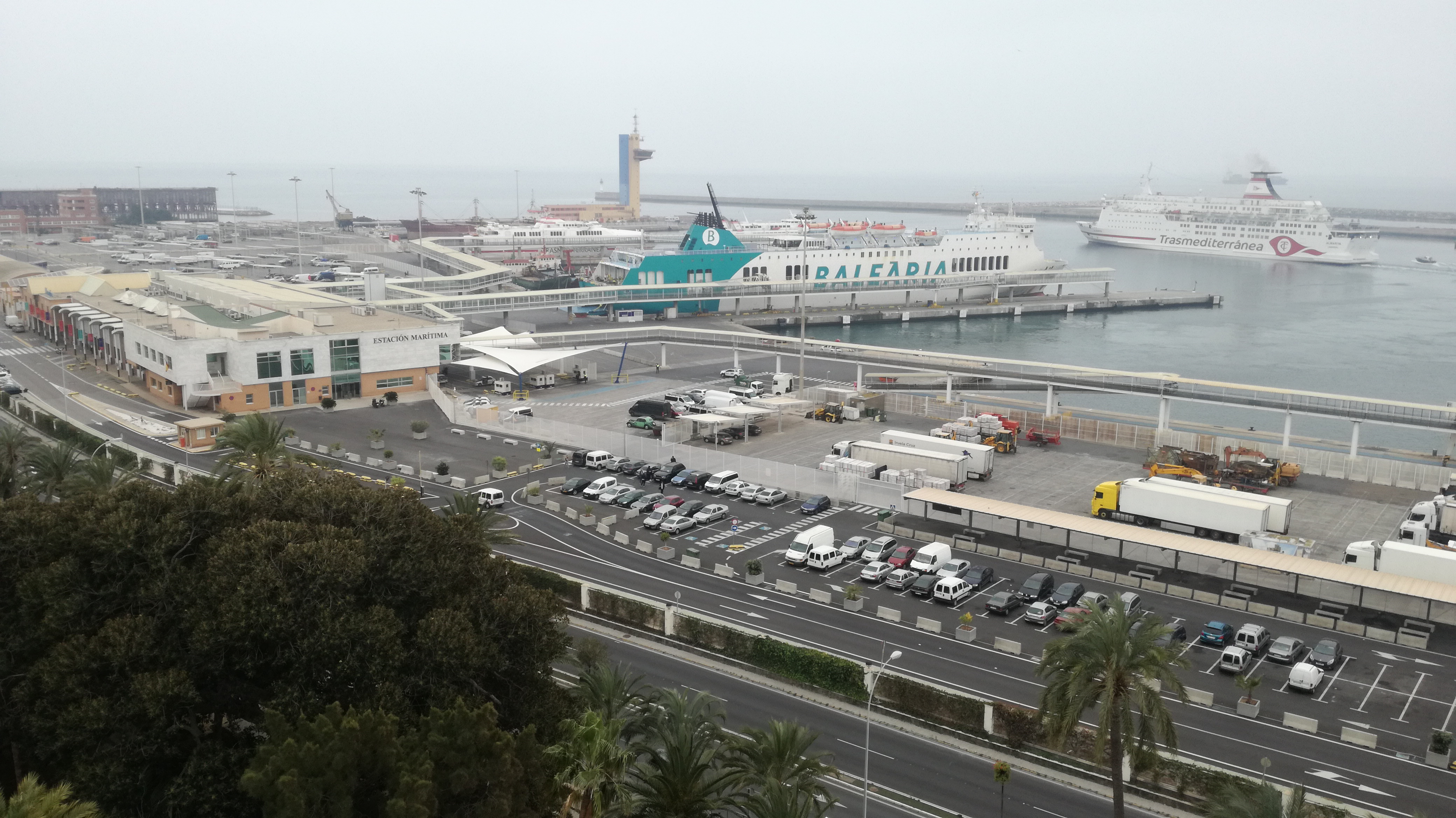 General view of Port of Almeria's Maritime Station with a moored Baleària ferry and a leaving Trasmediterránea ship.